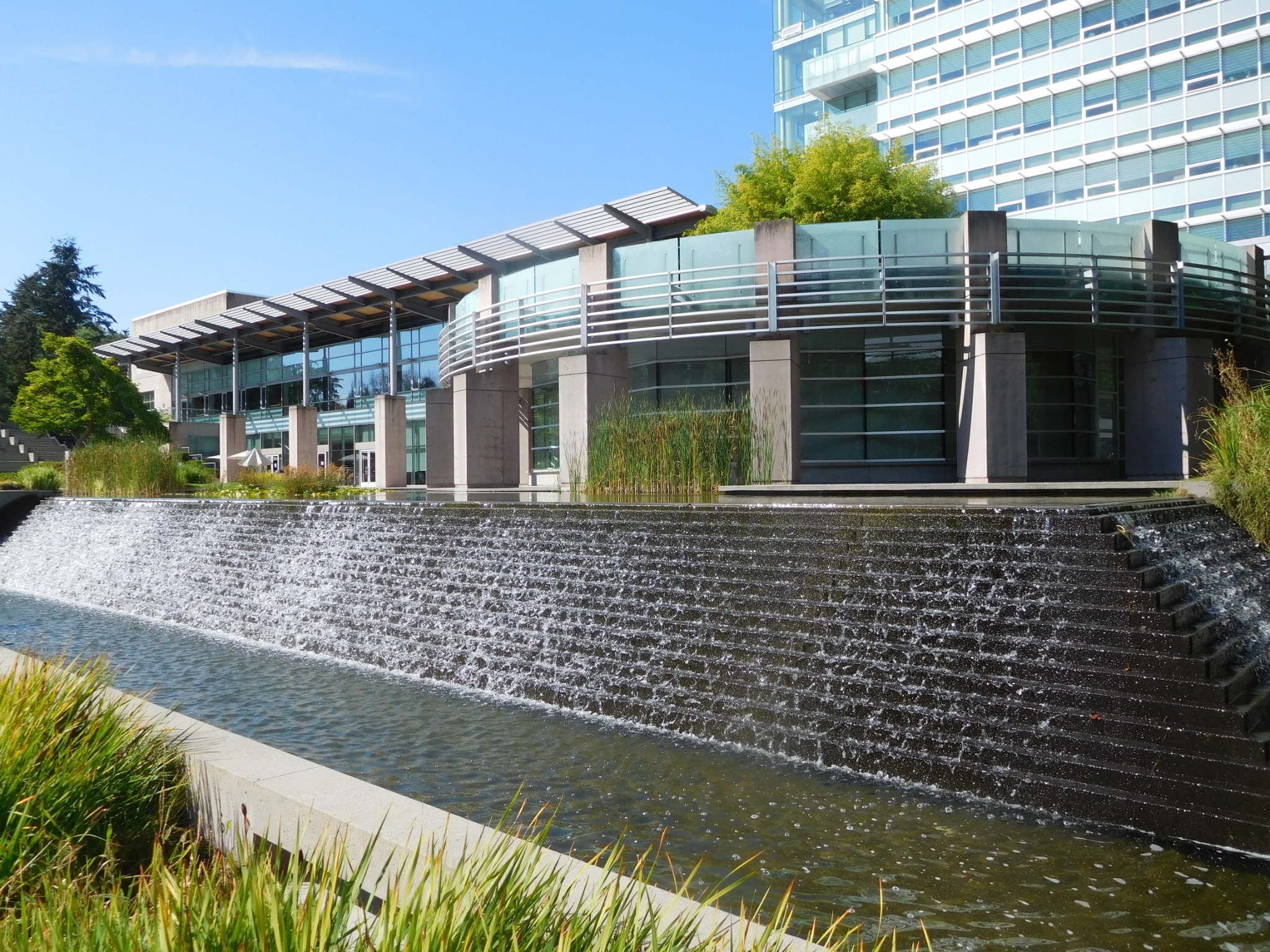 Fountains at Richmond City Hall